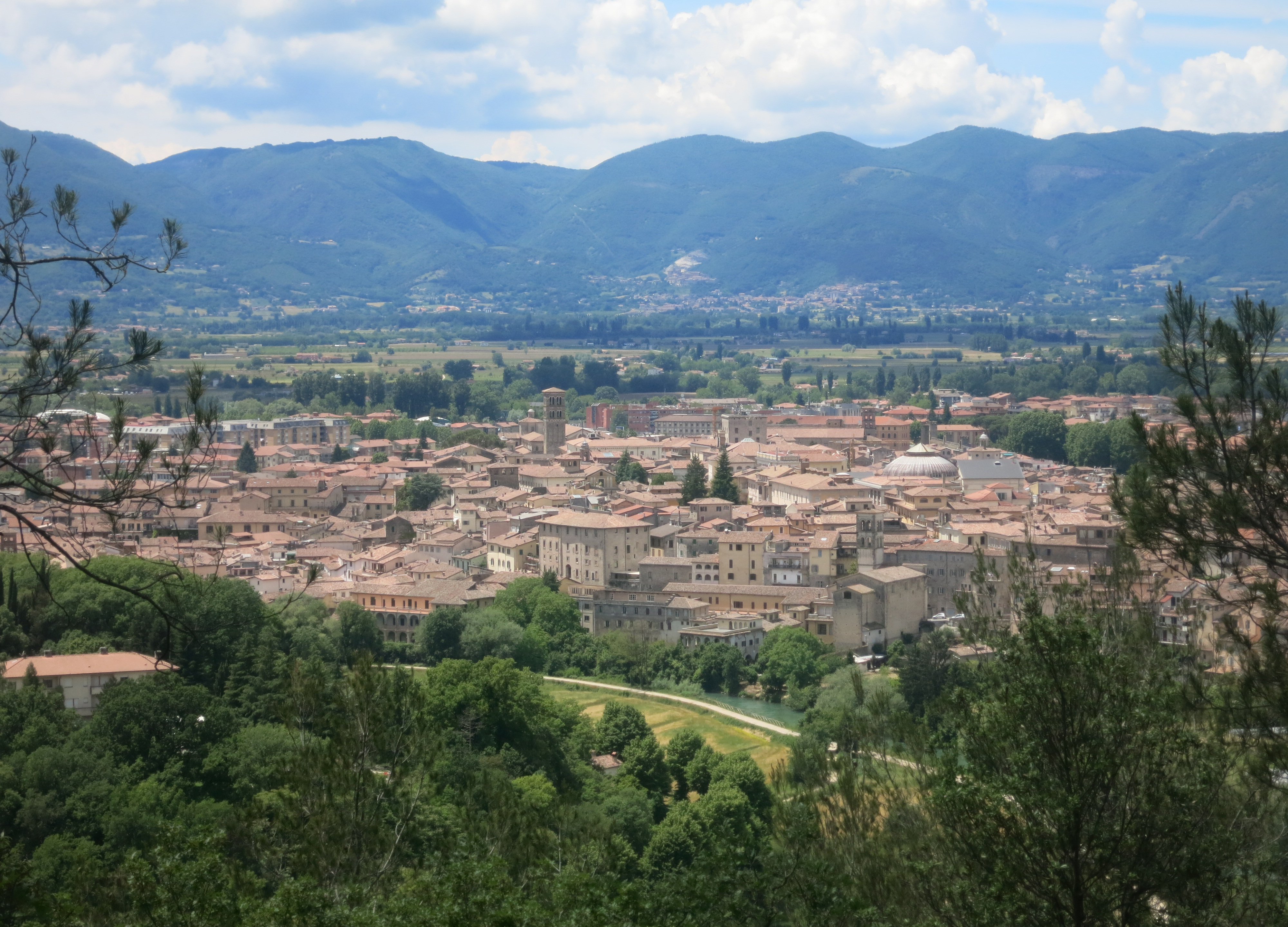 Cityscape of Rieti from San Mauro Hill - the city center (in the background, Città Giardino neighbourhood)